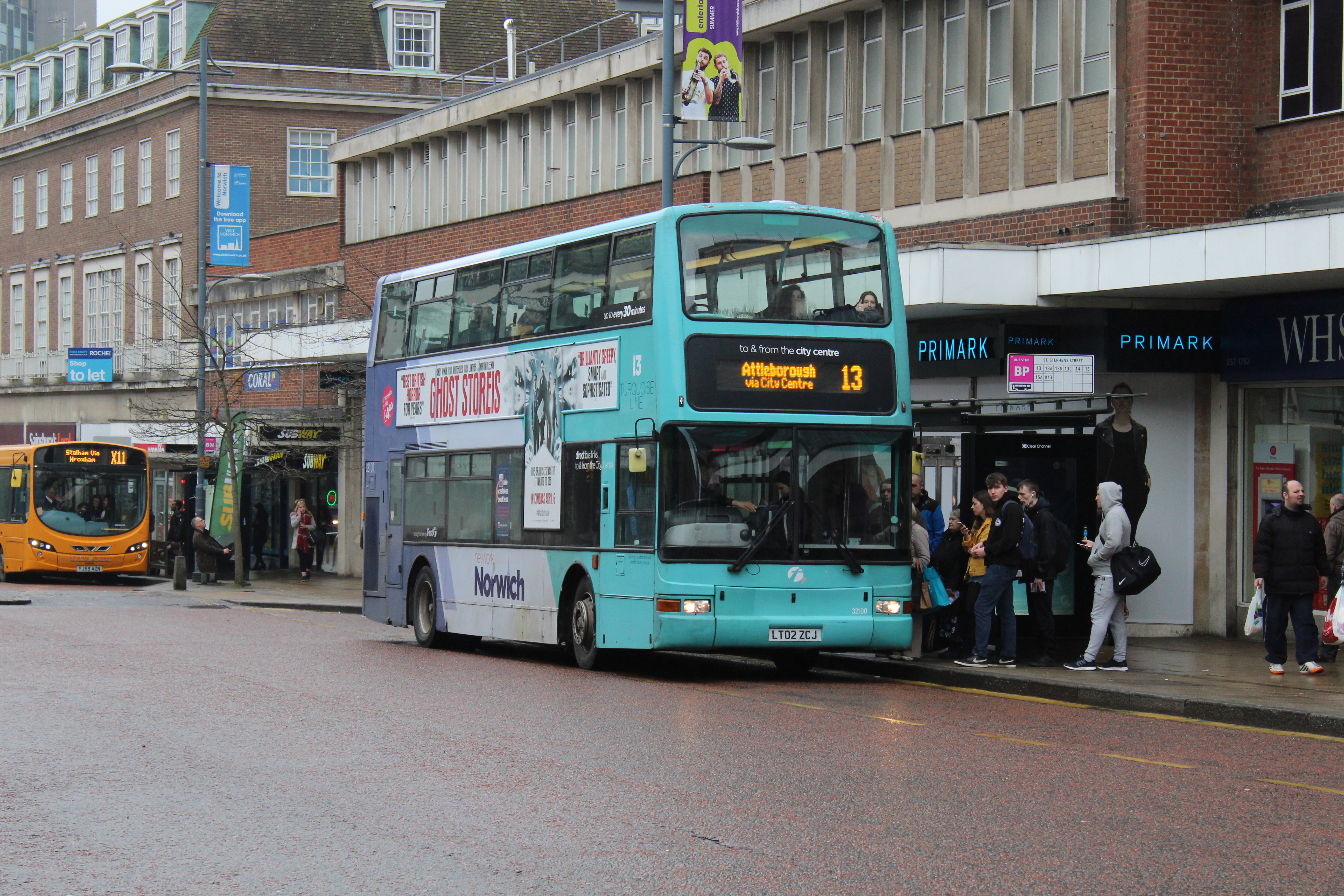 A Volvo B7TL/Plaxton President carrying Network Norwich Turquoise Line branding in Norwich, Norfolk